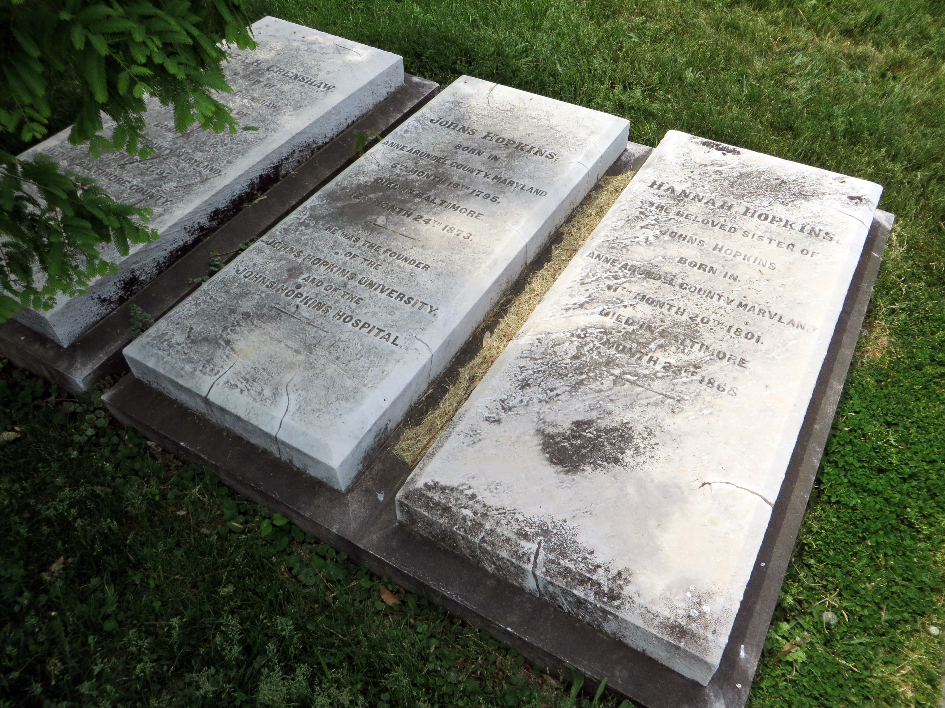 Gravestones of Johns Hopkins, and his sisters Eliza H. Hopkins (Born in Anne Arundel County Maryland, 5th Month 19th 1797; Died in Baltimore County,8th Month 1st 1875), and Hannah Hopkins (Born in Anne Arundel County Maryland, 11th Month 20th 1801; Died in Baltimore, 3rd Month 23rd 1868) in Green Mount Cemetery.